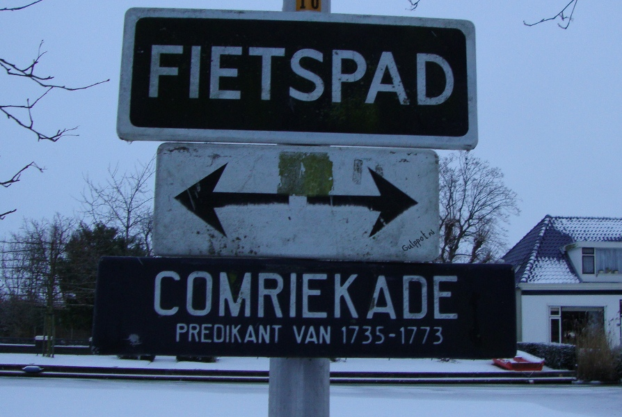 Street Sign of the Comriekade in Woubrugge, the Netherlands